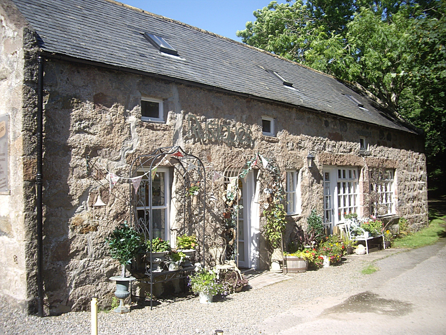 'Rustiques', Milton of Crathes